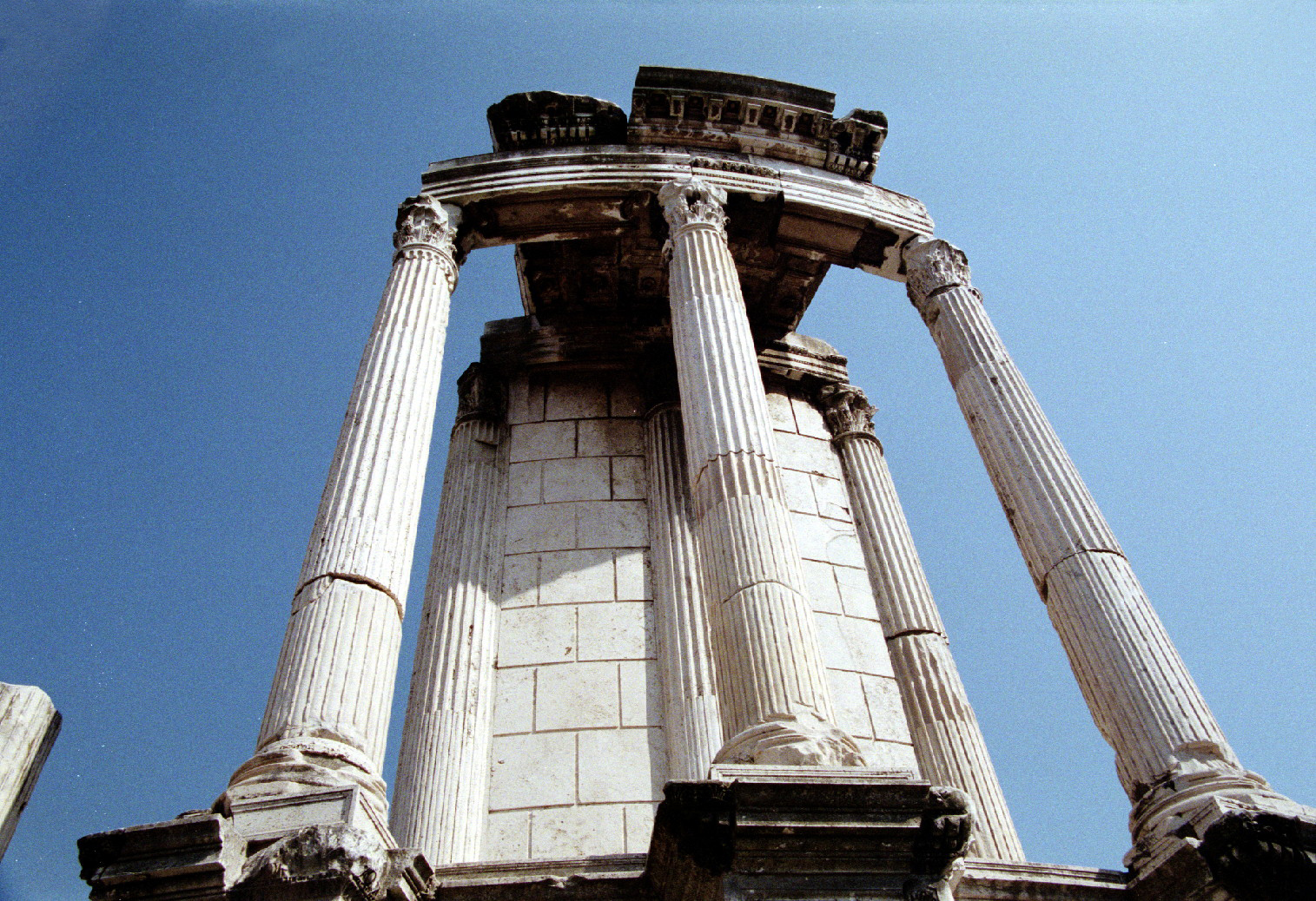 Description:Temple of Vesta ~ Rome. Date: 16~08~1998 Author: Neil Scott Permission: Public Domain